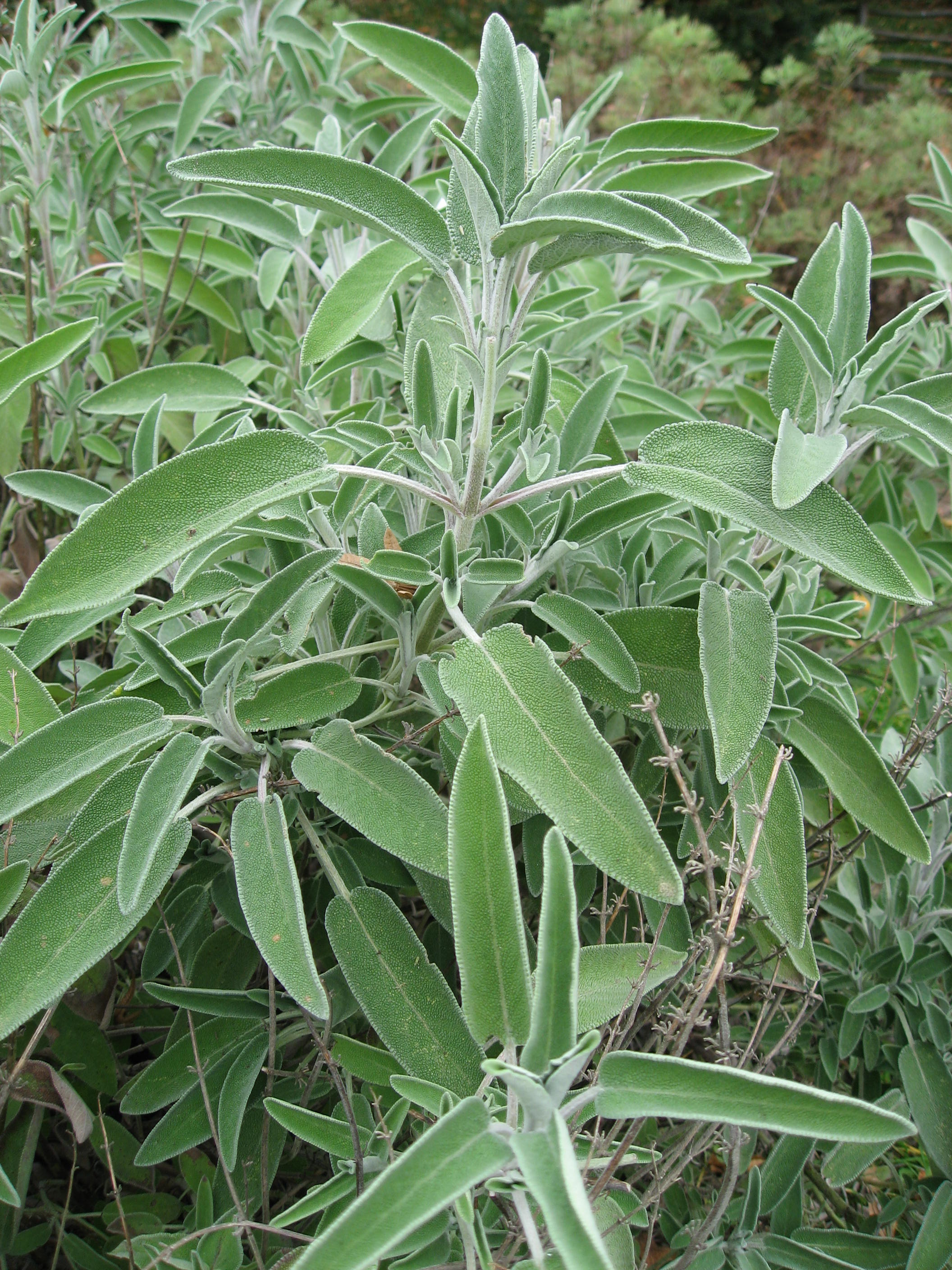 Salvia officinalis in Conservatoire National des Plantes à Parfum Map: 48° 23' 49" N 2° 28' 45" E